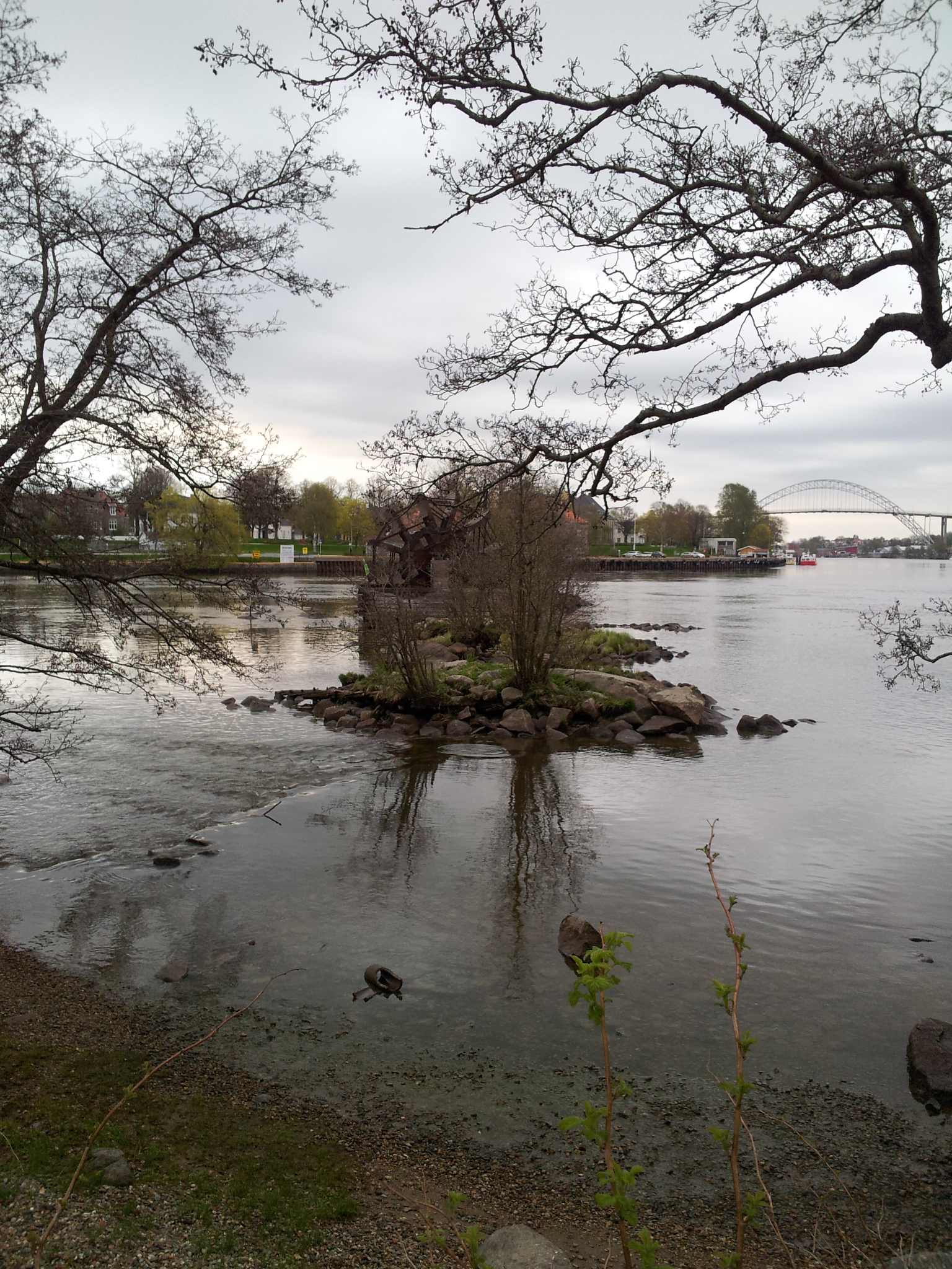 Water wheel, Isegran, Fredrikstad